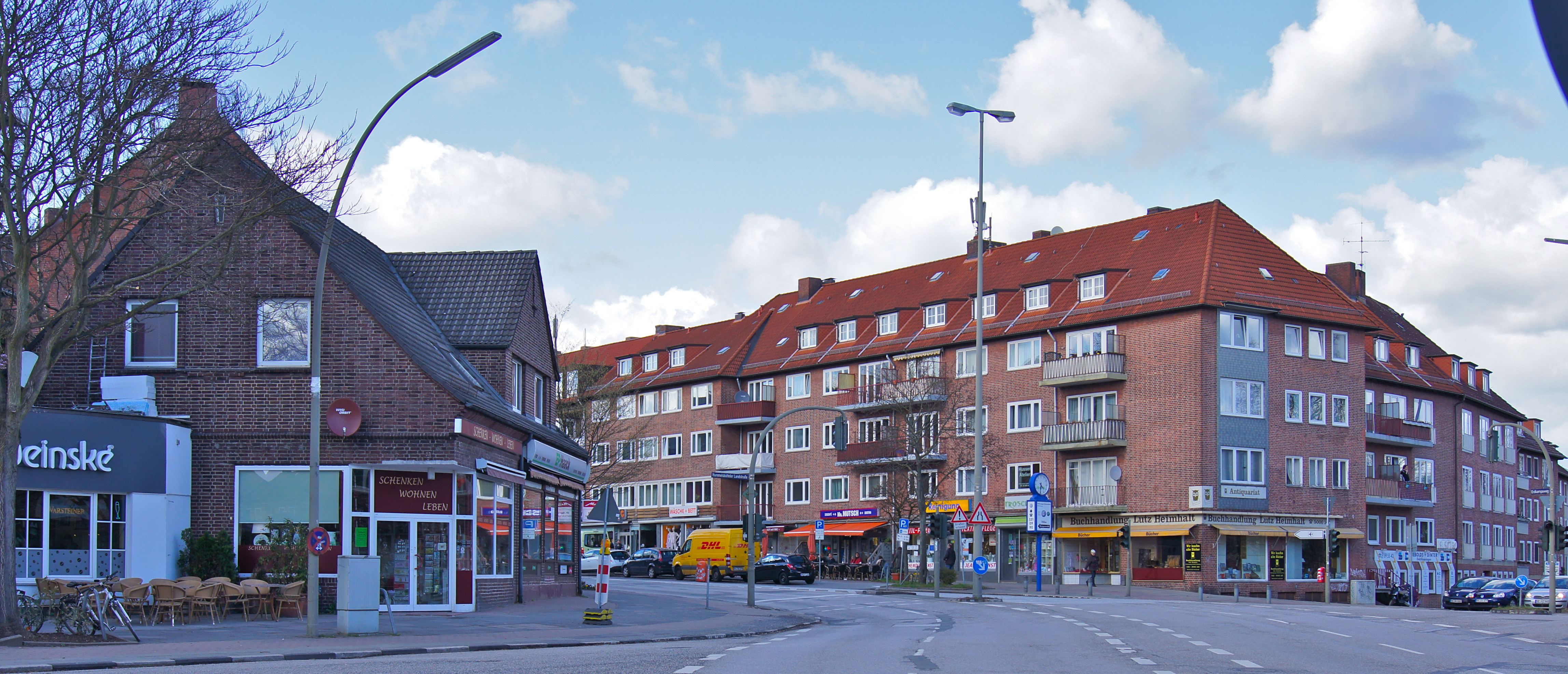 Hamburg (Fuhlsbüttel), Germany: High Street Erdkampsweg